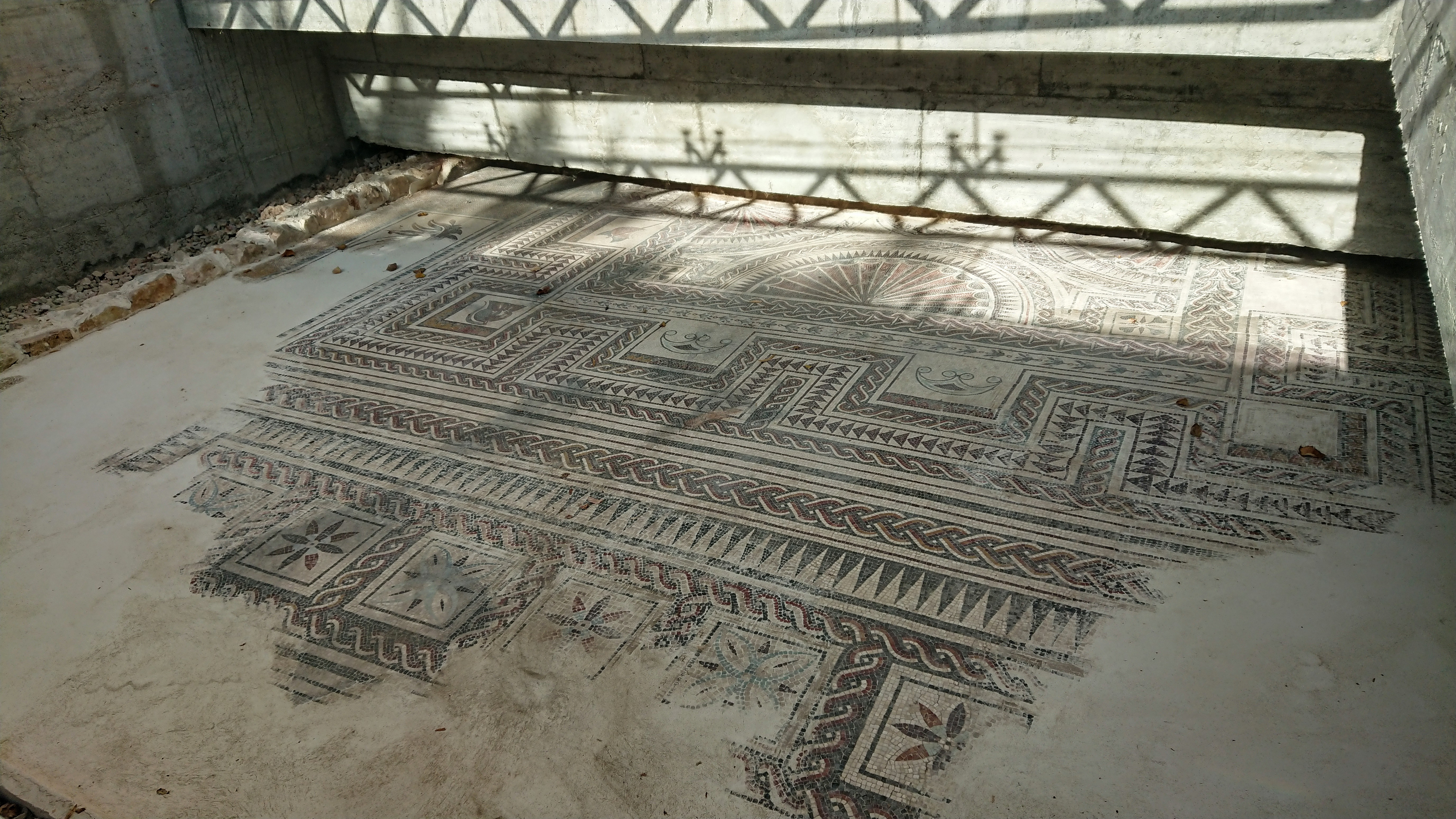 Roman mosaics in San Pedro square, Medinaceli, Soria (Spain)